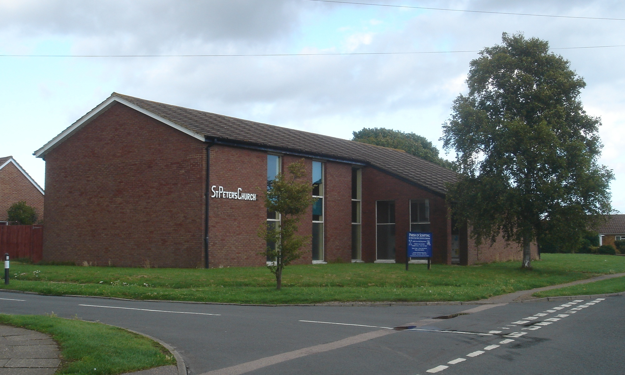 Parish church of St Peter the Apostle, Bowness Avenue, Lower Cokeham, Sompting, District of Adur, West Sussex, England. Built in 1966 as a combined church and church hall in the parish of St MAry the Virgin, Sompting.